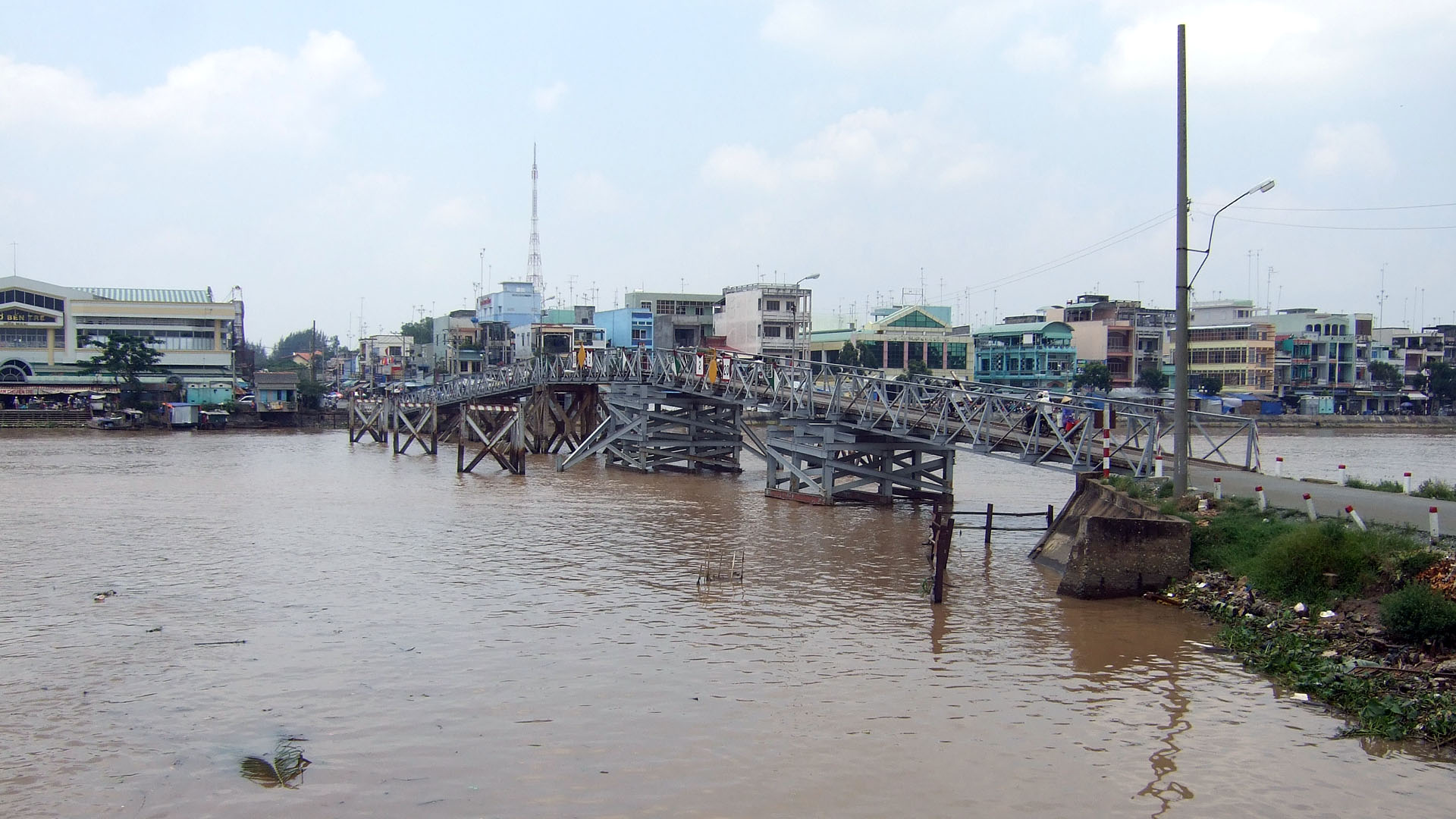 Old Ben Tre Bridge, Ben Tre city, Vietnam